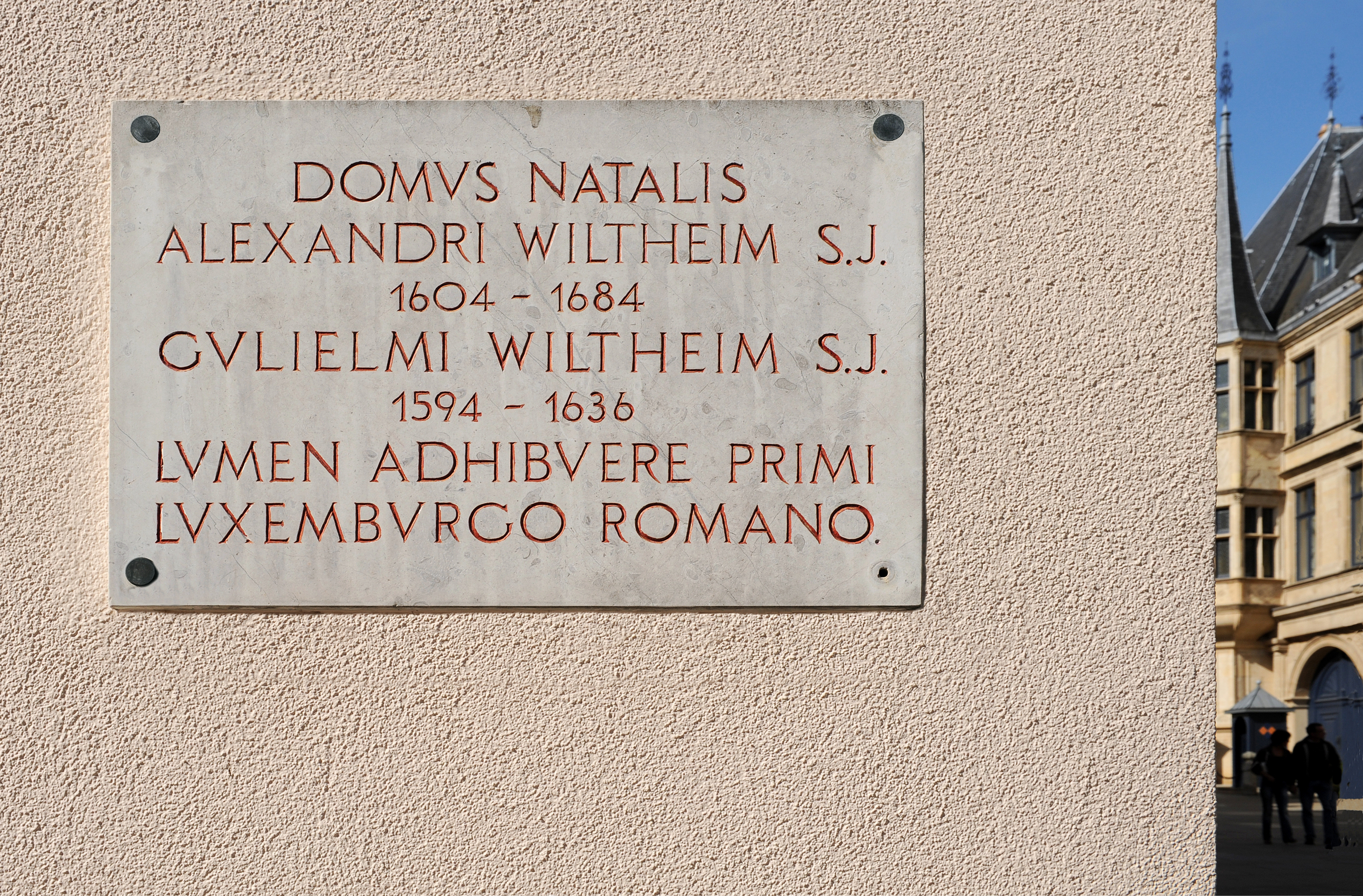 Luxembourg City, rue de l'Eau: plaque on the house where Alexandre and Jean-Guillaume Wiltheim were born. Translation: ... who where the investigators of the Roman Luxembourg.